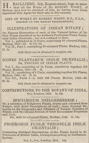 Advertisement for books by Robert Wight